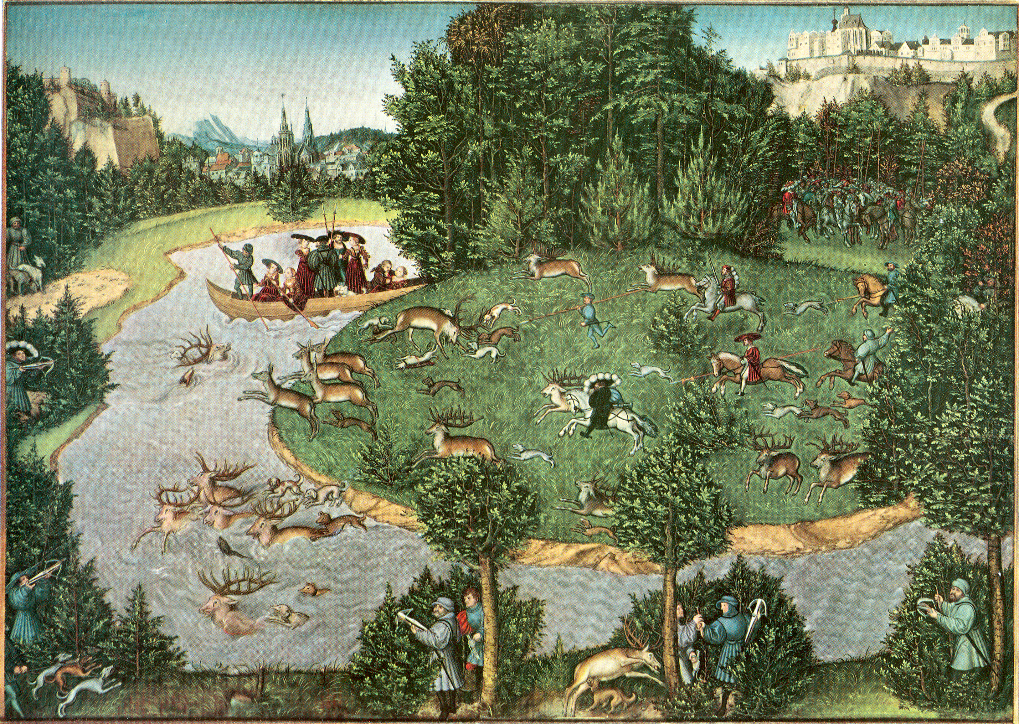 In the background there is a town and to the right a castle complex. In the centre of the foreground is the Elector Friedrich the Wise, further to the right is the Emperor Maximilian I. and on the far right Elector Johann the Steadfast. As neither the Elector Friedrich nor the Emperor Maximilian I. were still alive in 1529 it must be interpreted as a visual mementos commissioned by Johann the Steadfast to recall a hunt, which may have taken place in 1497 when both the Saxon princes were guests at Maximilian I.'s court in Innsbruck.